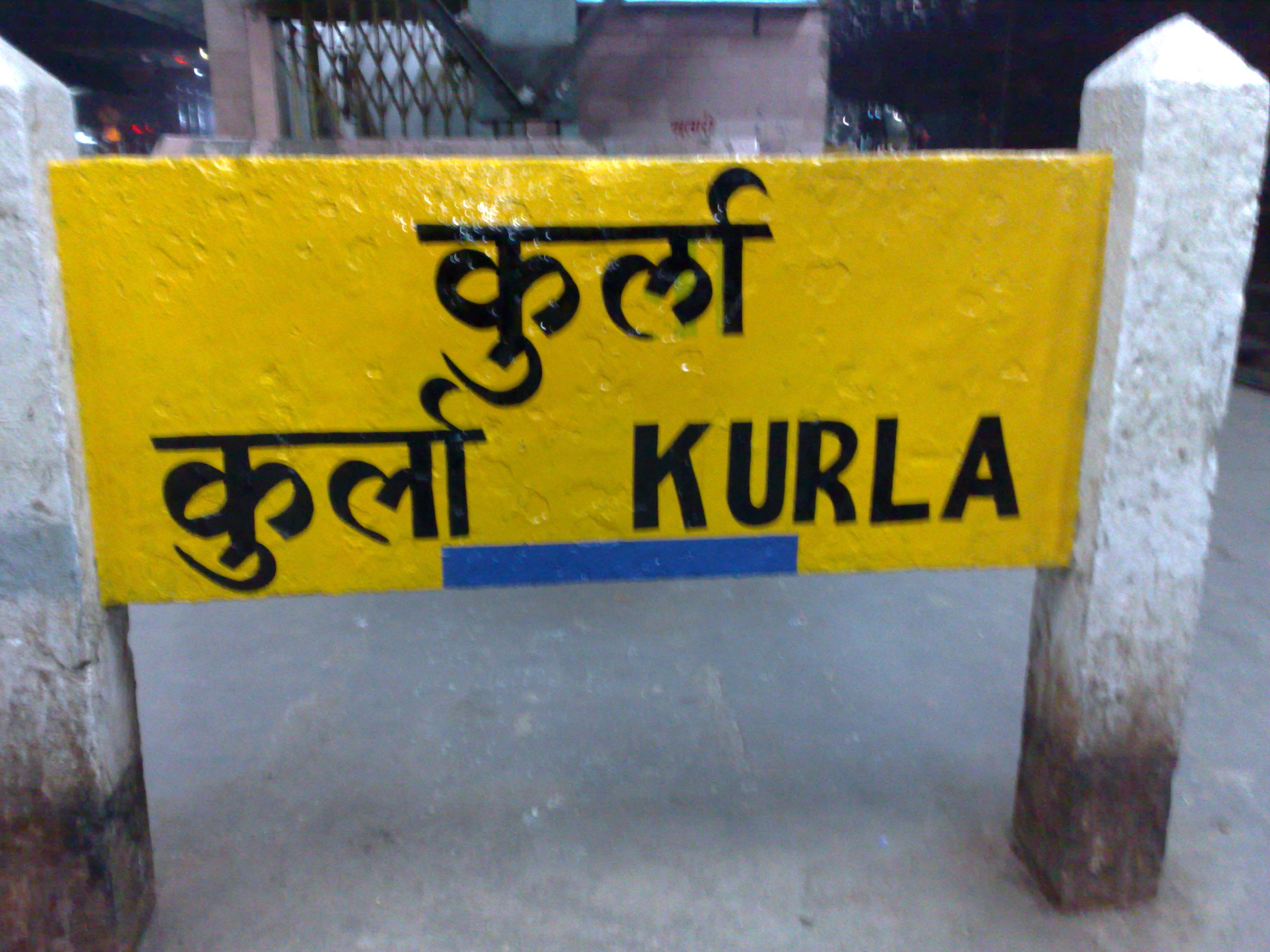 Kurla Station 2